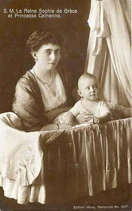 Queen Sophia of Greece and her last daughter, princess Katherine (later lady Brandram)